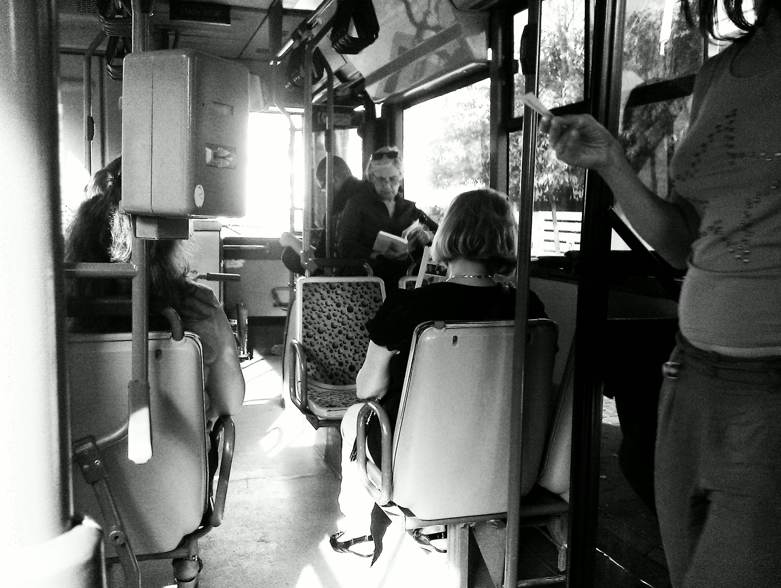 Inside a city bus! Taken with HTC Desire S smartphone in Athens, Greece in September 2013. Feel free to re-publish this picture or use it commercially under the Creative Commons Attiribution Share-Alike License.